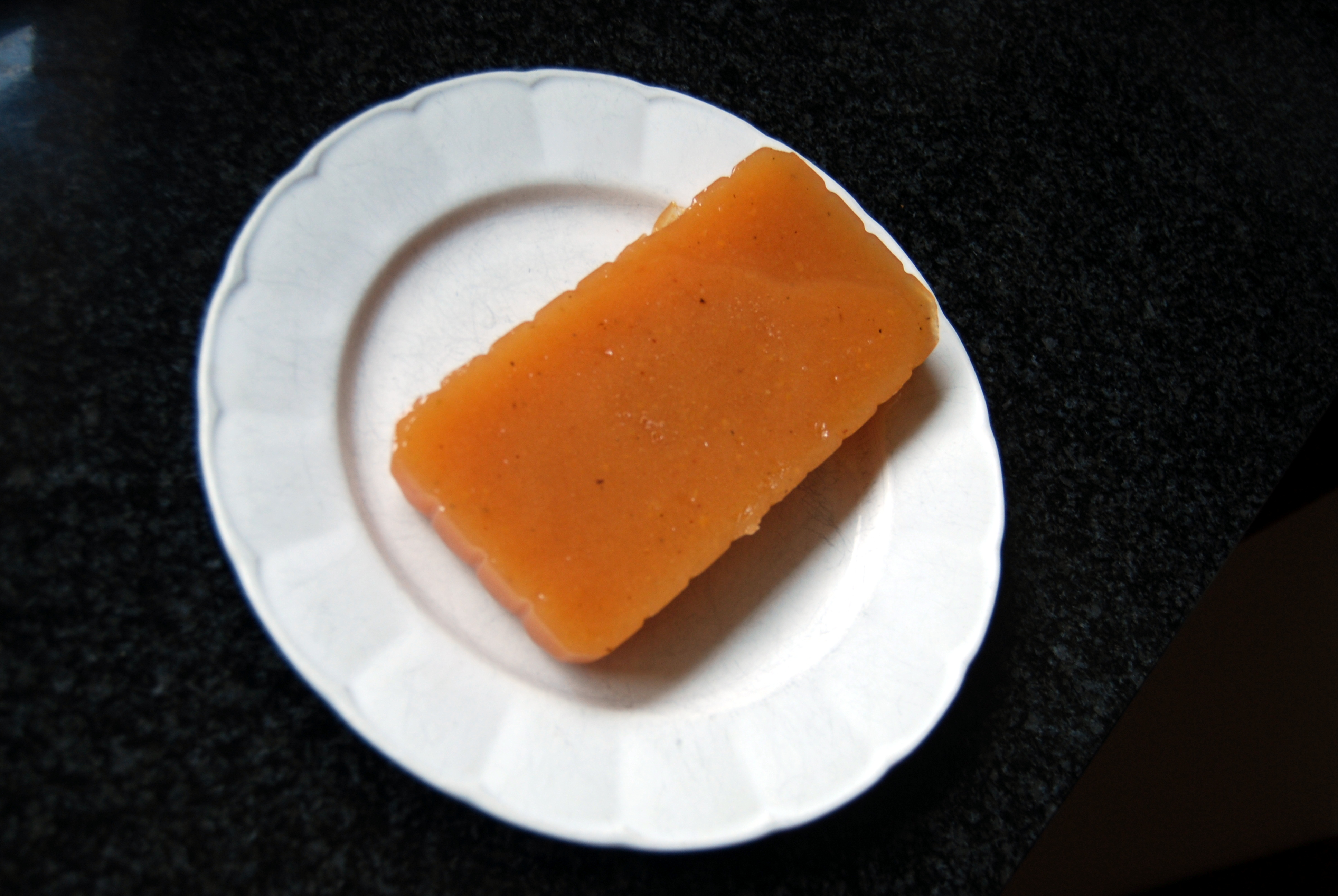 Dulce de membrillo.